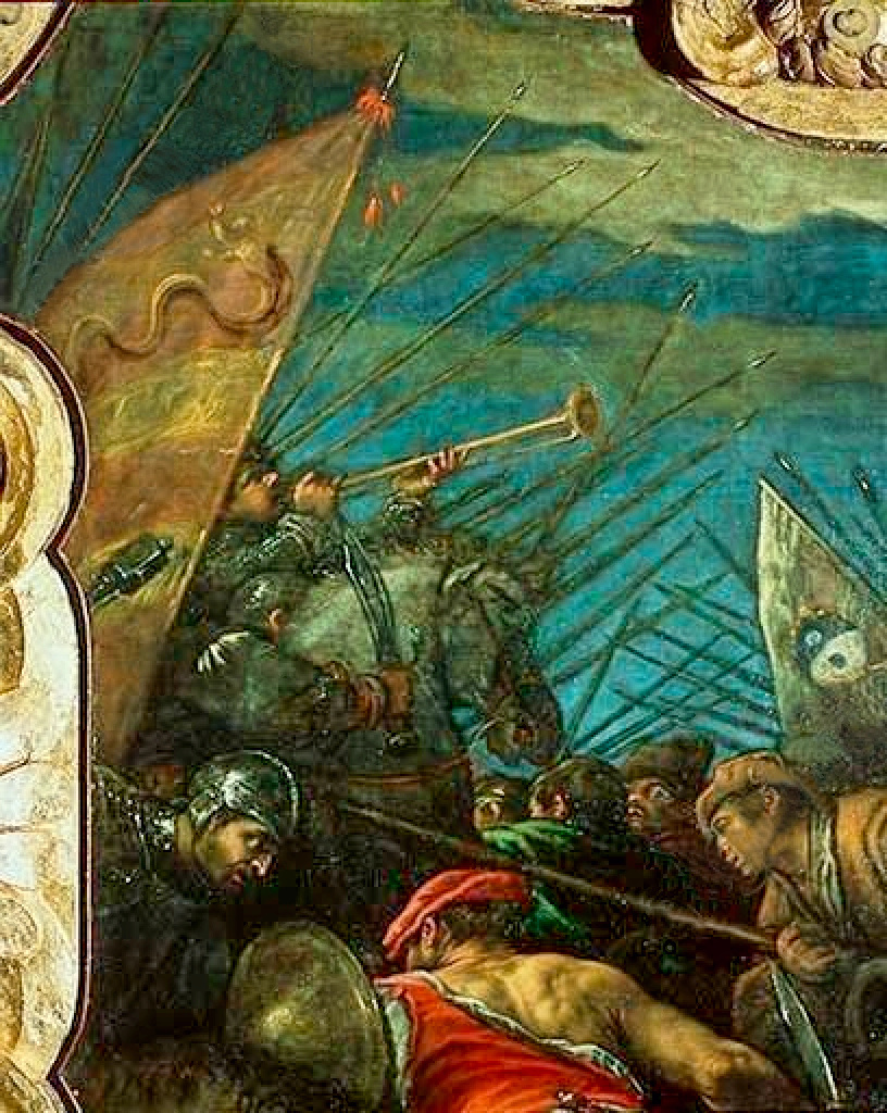 Ceiling painting by Francesco Bassano in 1590, real name Francesco da Ponte (1549-1592) Venice, Doge's Palace, Sala del Maggior Consiglio.